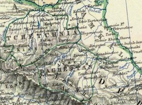 Turkey in Asia, Asia Minor, and Transcaucasia. By Keith Johnston, F.R.S.E. Engraved & printed by W. & A.K. Johnston, Edinburgh. William Blackwood & Sons, Edinburgh & London, (1861)